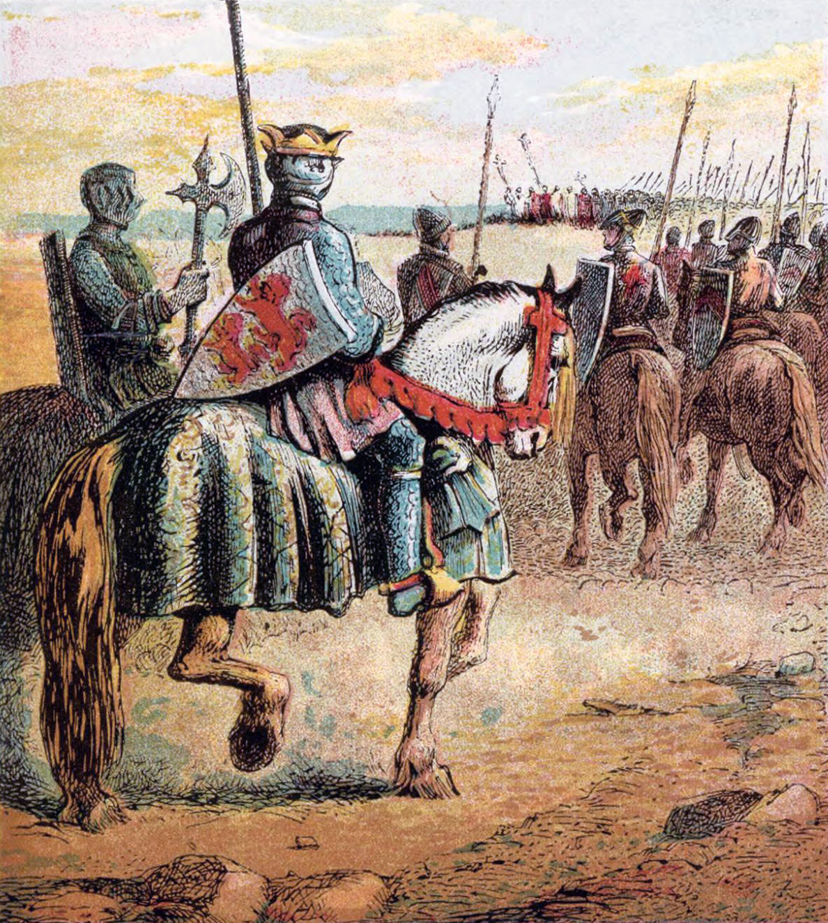 Robert Curthose leads his army to Palestine